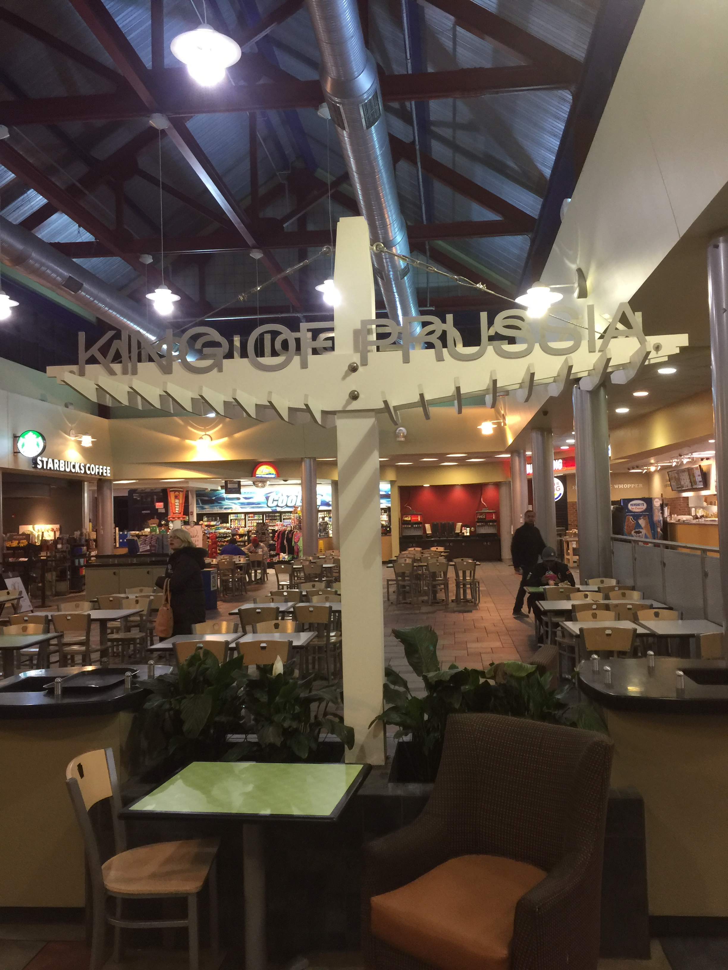 Inside the King of Prussia service plaza